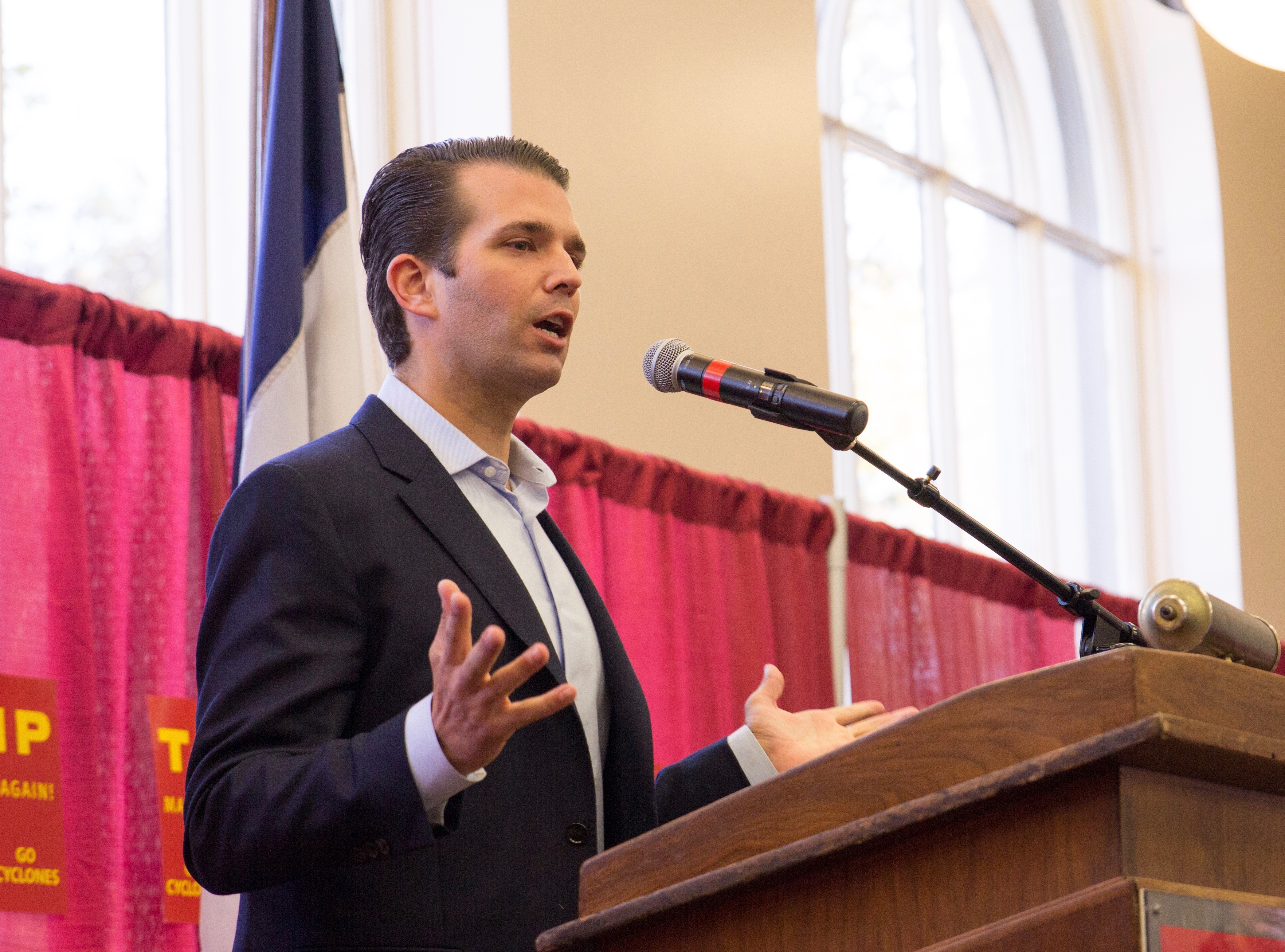 With only one week until Election Day, son of Republican presidential nominee Donald Trump, Donald Trump Jr., made a stop at Iowa State to talk about his father's plans to fix the economy, healthcare and the corruption in politics.